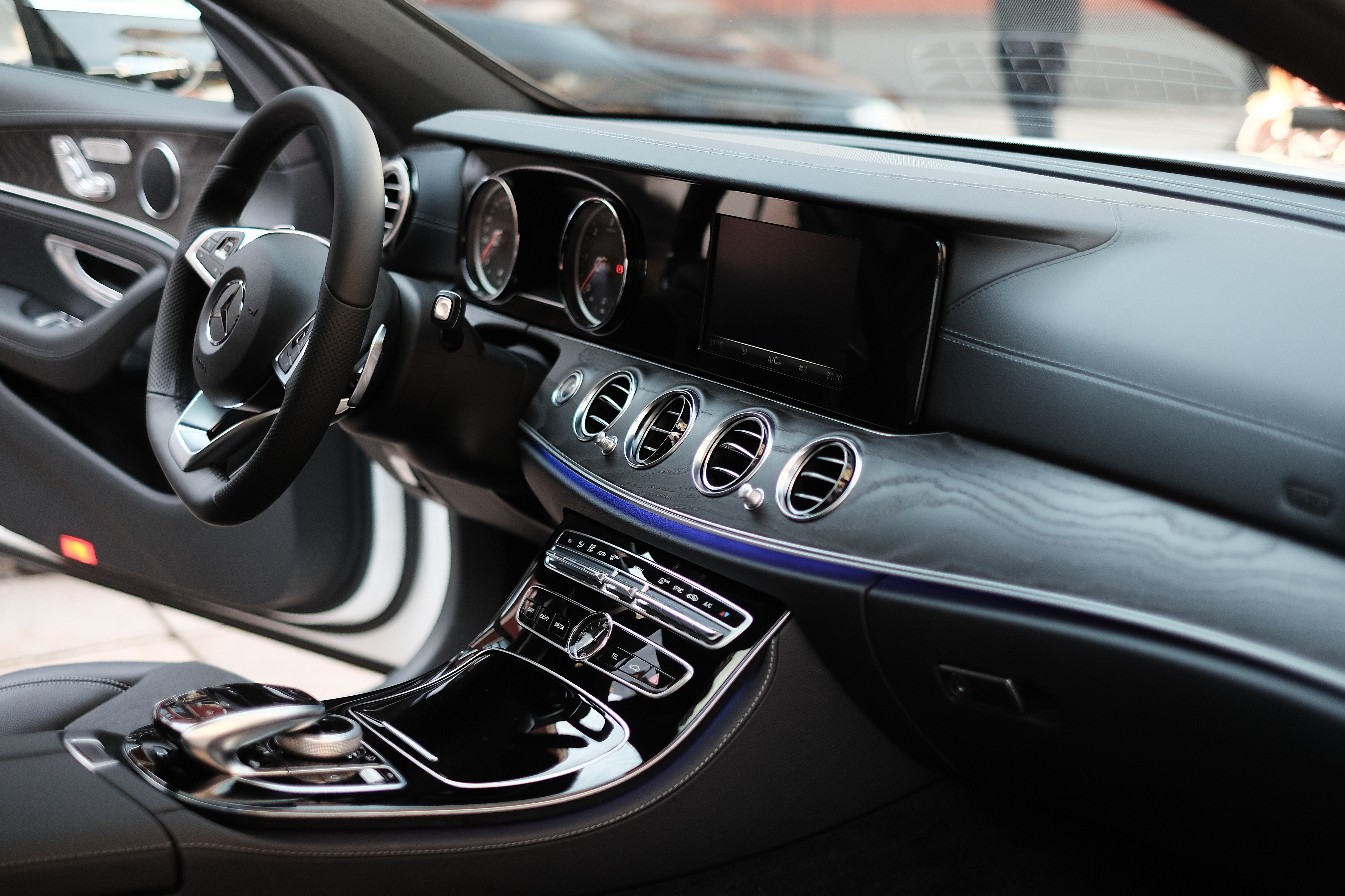 Mercedes-Benz W213 (E-class) interior: steering wheel, dashboard and displays